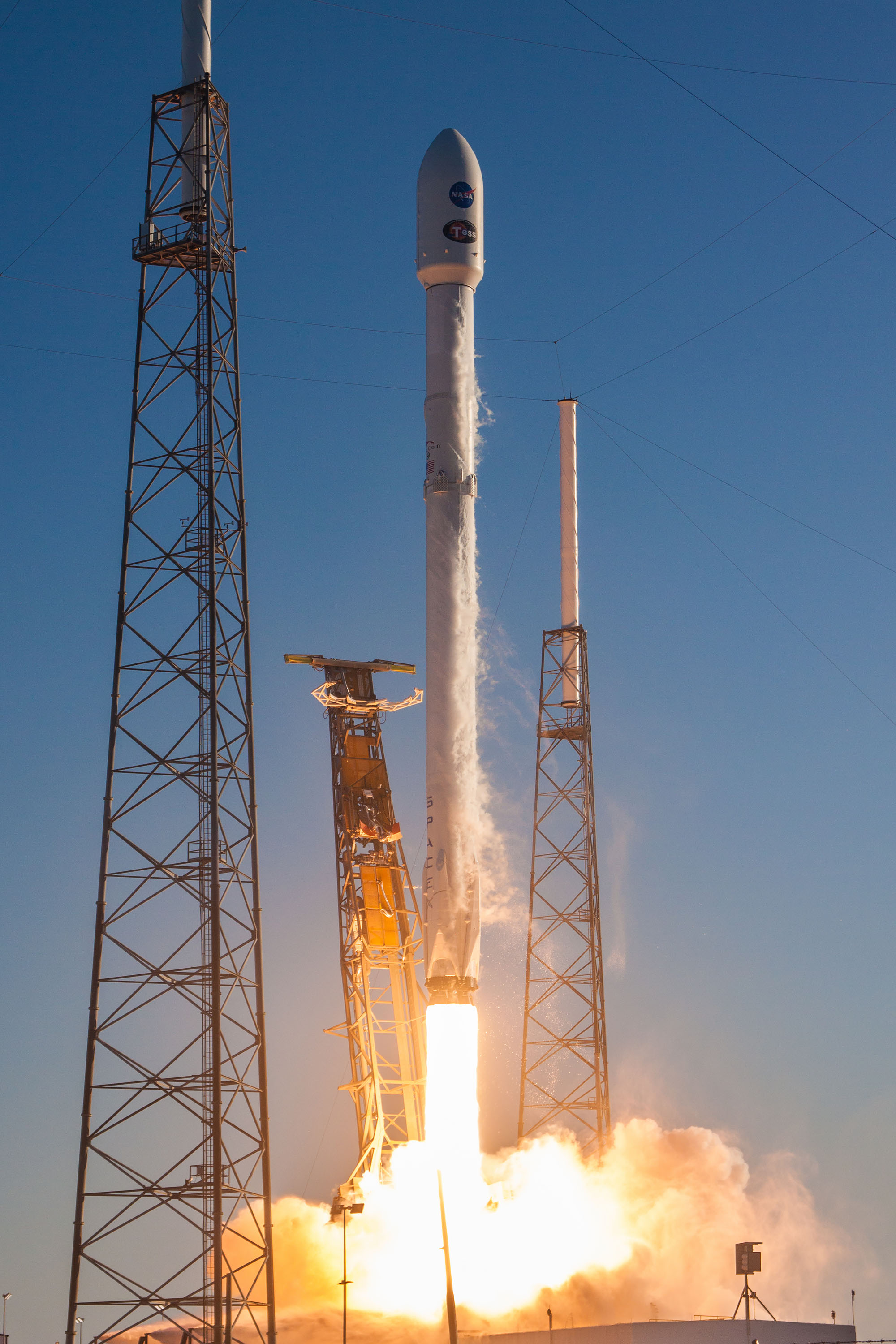 TESS Mission